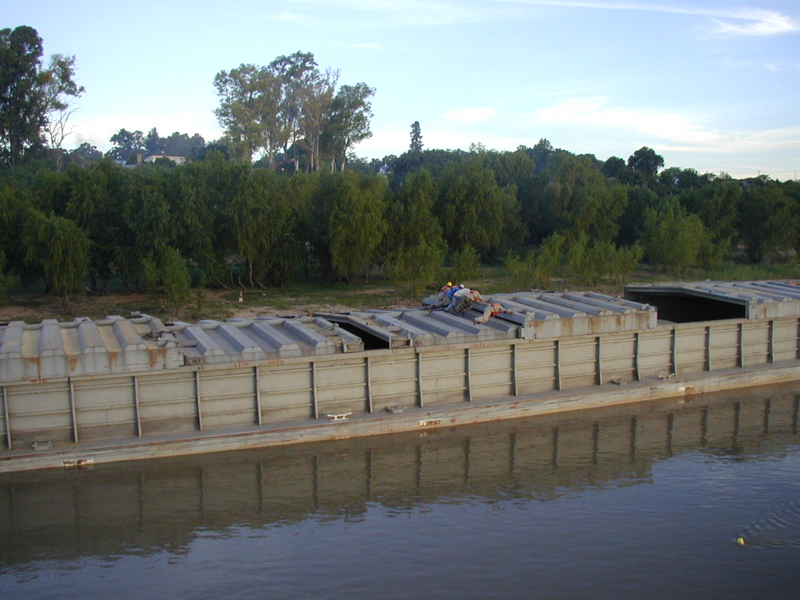 Closing hatch covers of grain barge, near of port La Paz, Entre Ríos, Argentina.